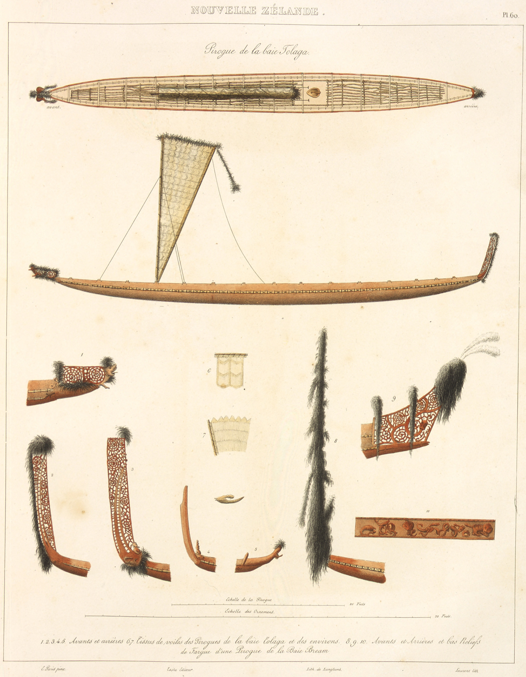 A plate containing details of canoes of Tolaga and Bream Bays, New Zealand, including whole views from above and the side, showing a triangular sail, a close-up of a sail, carvings from sterns and prows. In Dumont d'Urville, Jules Sebastien Cesar, 1790-1842: Voyage de la corvette l'Astrolabe execute pendant les annees 1826, 1827, 1828 et 1829. Atlas historique. Paris, Tastu, 1833. Engraving, hand-coloured, 367 x 290 mm. Cropped from original (see "File history" below).